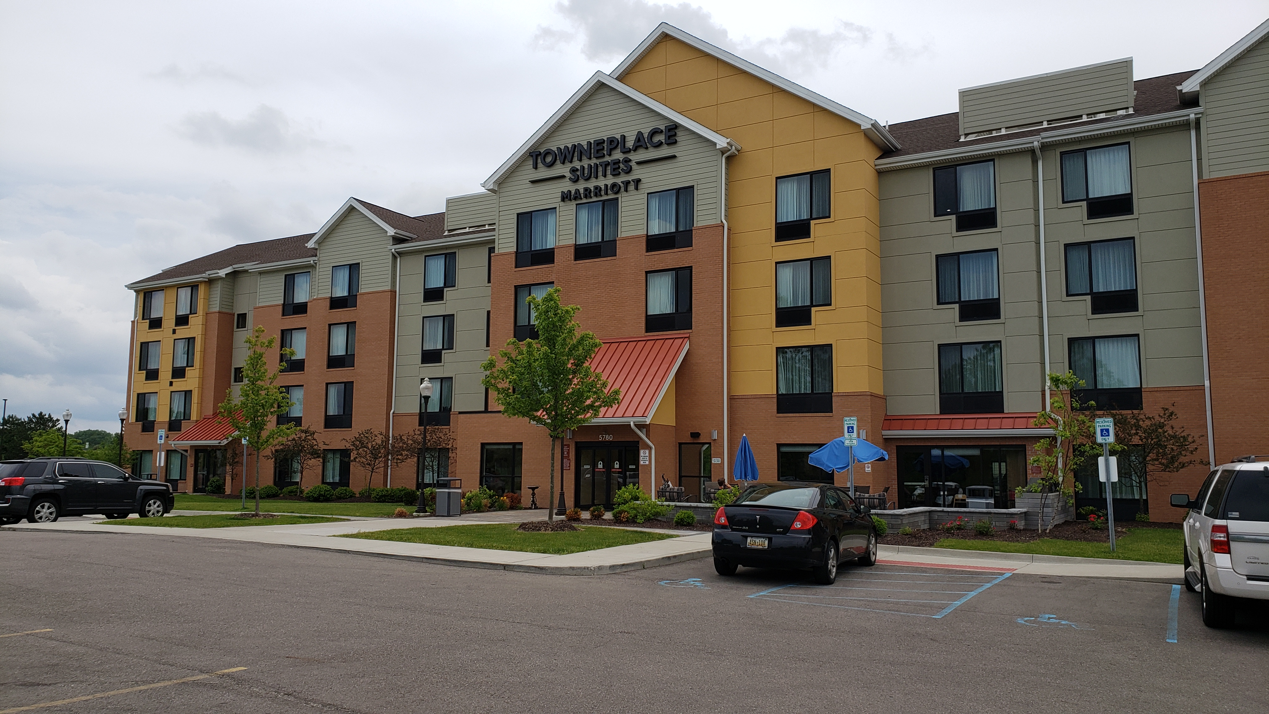 TownePlace Suites, Canton, MI.